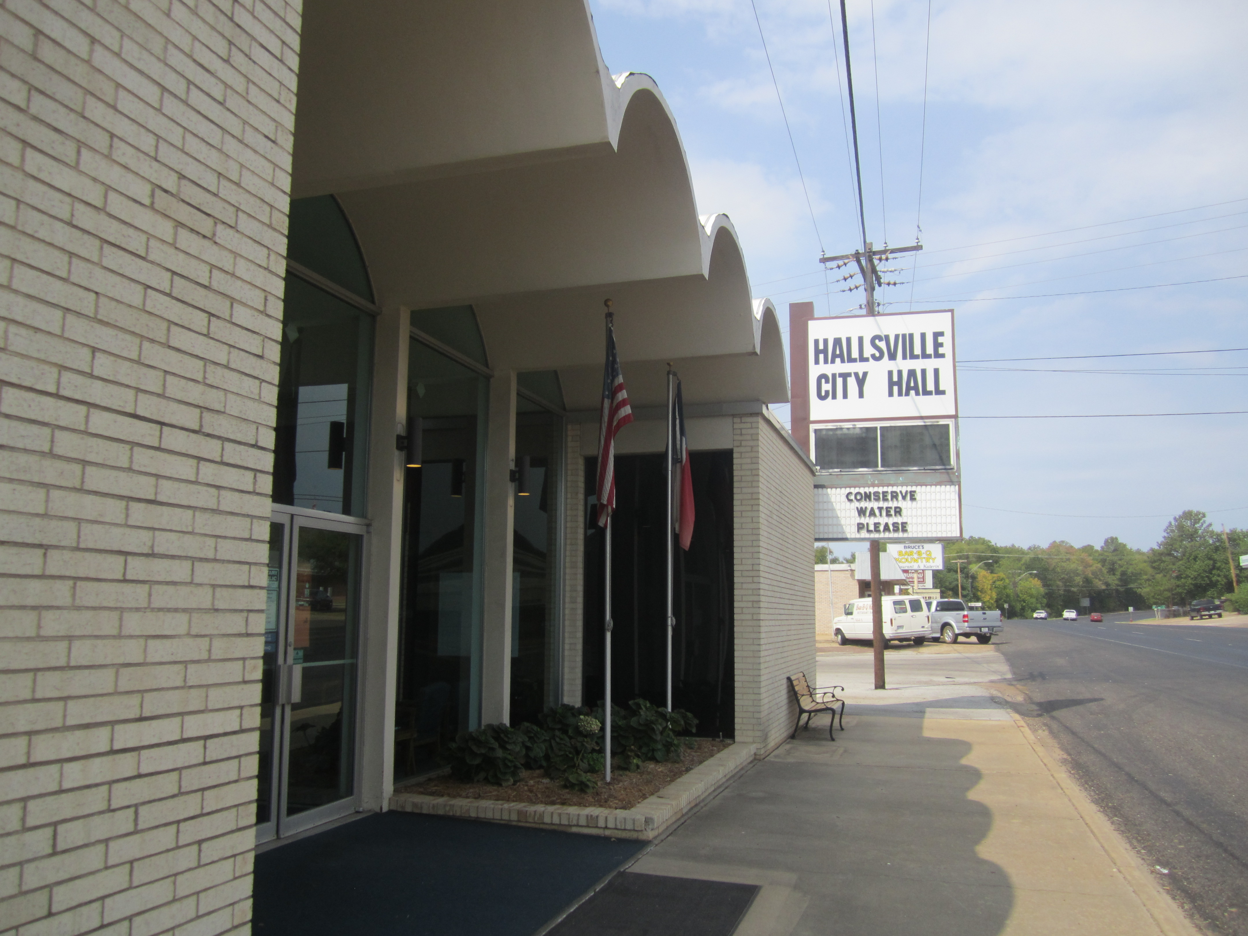 I took photo with Canon camera of Hallsville City Hall in Hallsville, TX.